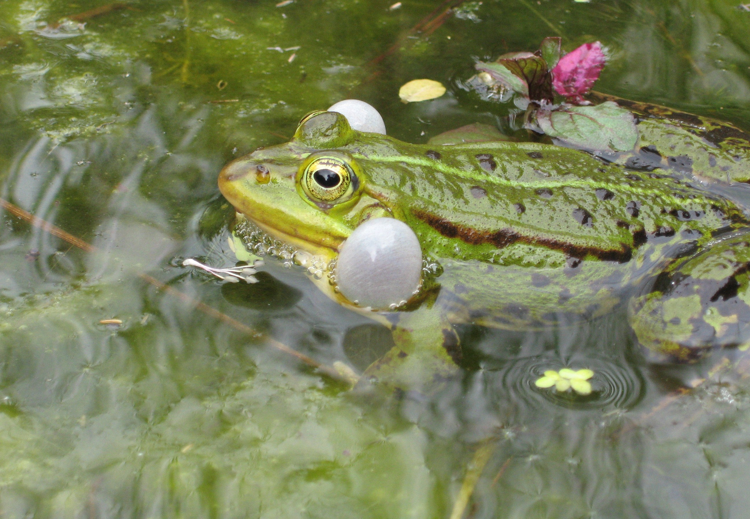 Edible Frog, calling male from Mecklenburg-West Pomerania, Germany.